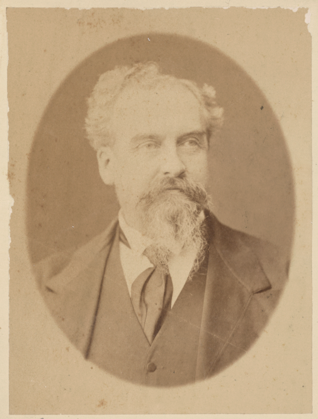 This small photograph of Sir Robert Egerton (1827–1912), lieutenant governor of Punjab, is from an album of rare historical photographs depicting people and places associated with the Second Anglo-Afghan War. Egerton was an aide to the previous lieutenant governor of Punjab, Sir Robert Henry Davies (1824–1902), before being appointed to the same position in 1877. During the British Raj of 1858–1947, prominent British administrators and military men were often considered as “Indian” celebrities. The Second Anglo-Afghan War began in November 1878 when Great Britain, fearful of what it saw as growing Russian influence in Afghanistan, invaded the country from British India. The first phase of the war ended in May 1879 with the Treaty of Gandamak, which permitted the Afghans to maintain internal sovereignty but forced them to cede control over their foreign policy to the British. Fighting resumed in September 1879, after an anti-British uprising in Kabul, and finally concluded in September 1880 with the decisive Battle of Kandahar. The album includes portraits of British and Afghan leaders and military personnel, portraits of ordinary Afghan people, and depictions of British military camps and activities, structures, landscapes, and cities and towns. The sites shown are all located within the borders of present-day Afghanistan or Pakistan (a part of British India at the time). About a third of the photographs were taken by John Burke (circa 1843–1900), another third by Sir Benjamin Simpson (1831–1923), and the remainder by several other photographers. Some of the photographs are unattributed. The album possibly was compiled by a member of the British Indian government, but this has not been confirmed. How it came to the Library of Congress is not known. Afghan Wars; Egerton, Robert Eyles, 1827–1912; Government officials; Lieutenant governors; Portrait photographs; Portraits